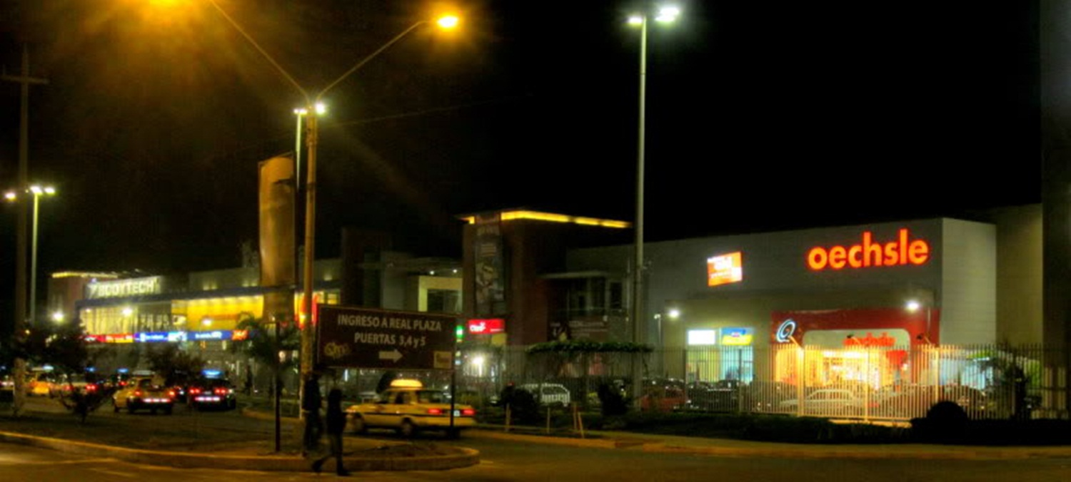 Real Plaza Trujillo